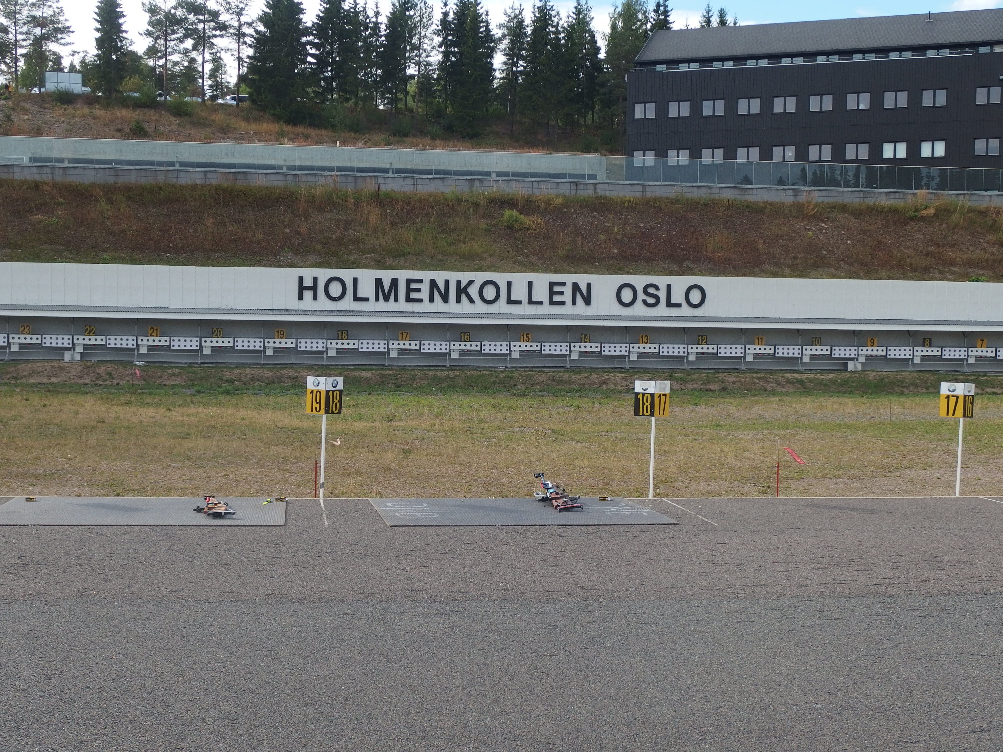 Oslo, Norway. Holmenkollen ski amd biathlon resort.